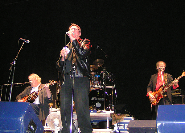 Hans Otto Bisgaard, Stig Møller and Peter Ingemann during Culture Night Show in Roskilde ...